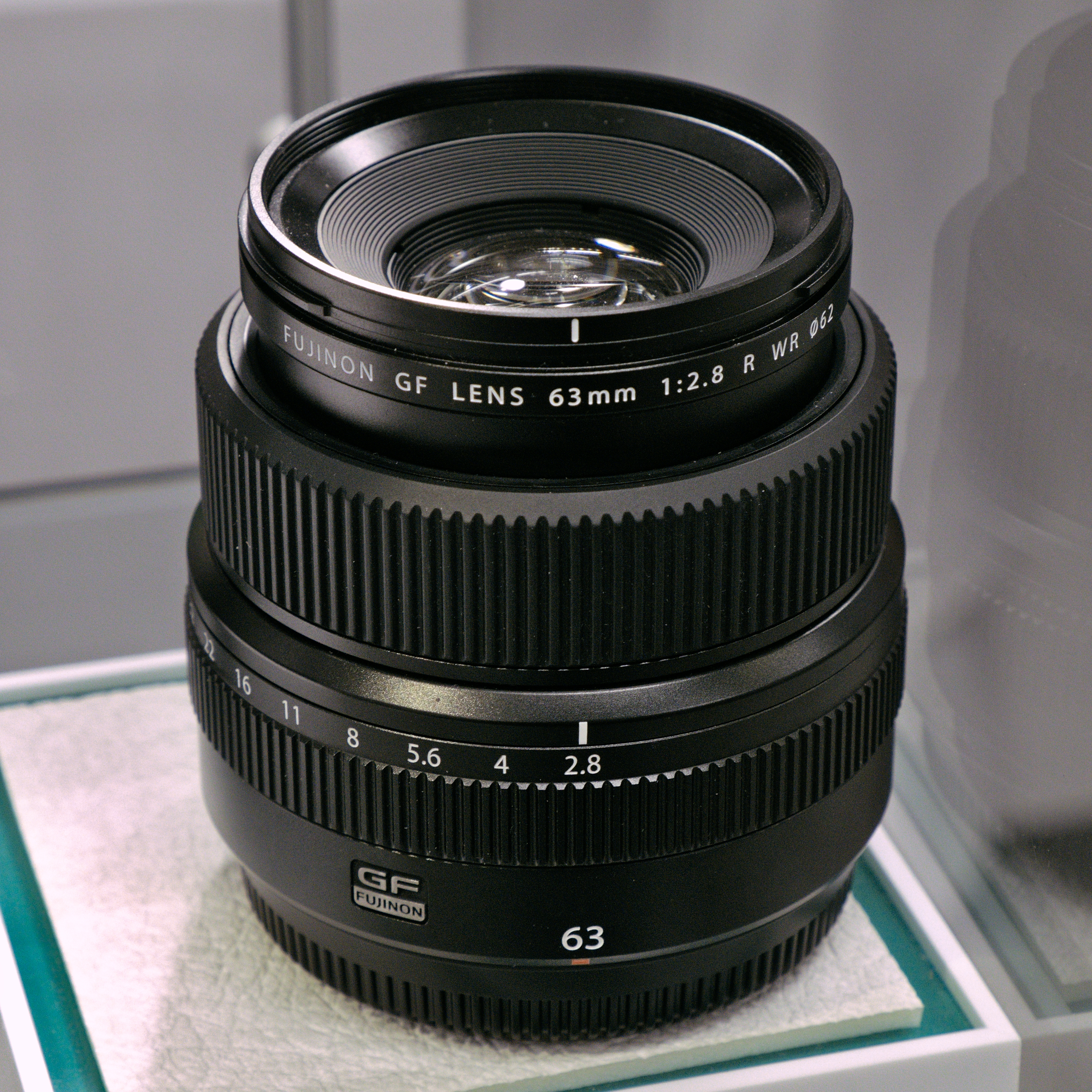 Fujifilm GF 63 mm f/2.8 R WR for Fujifilm G-mount